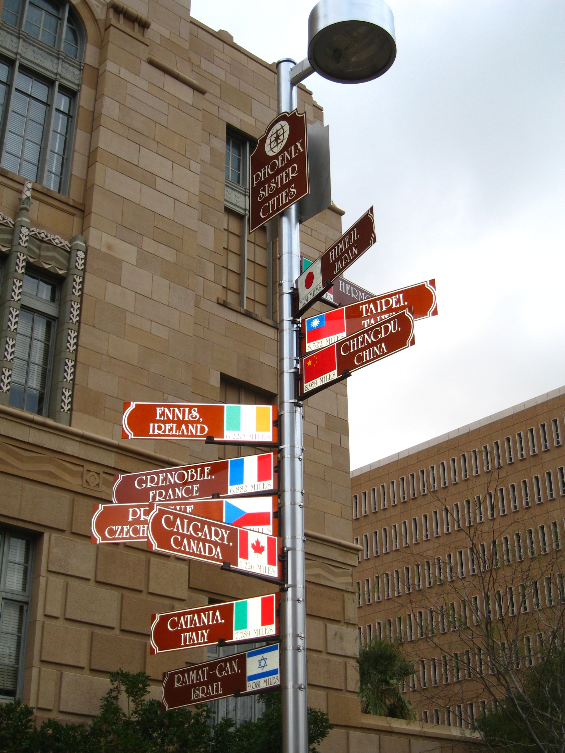 Sign showing the sister cities of Phoenix, AZ, USA.